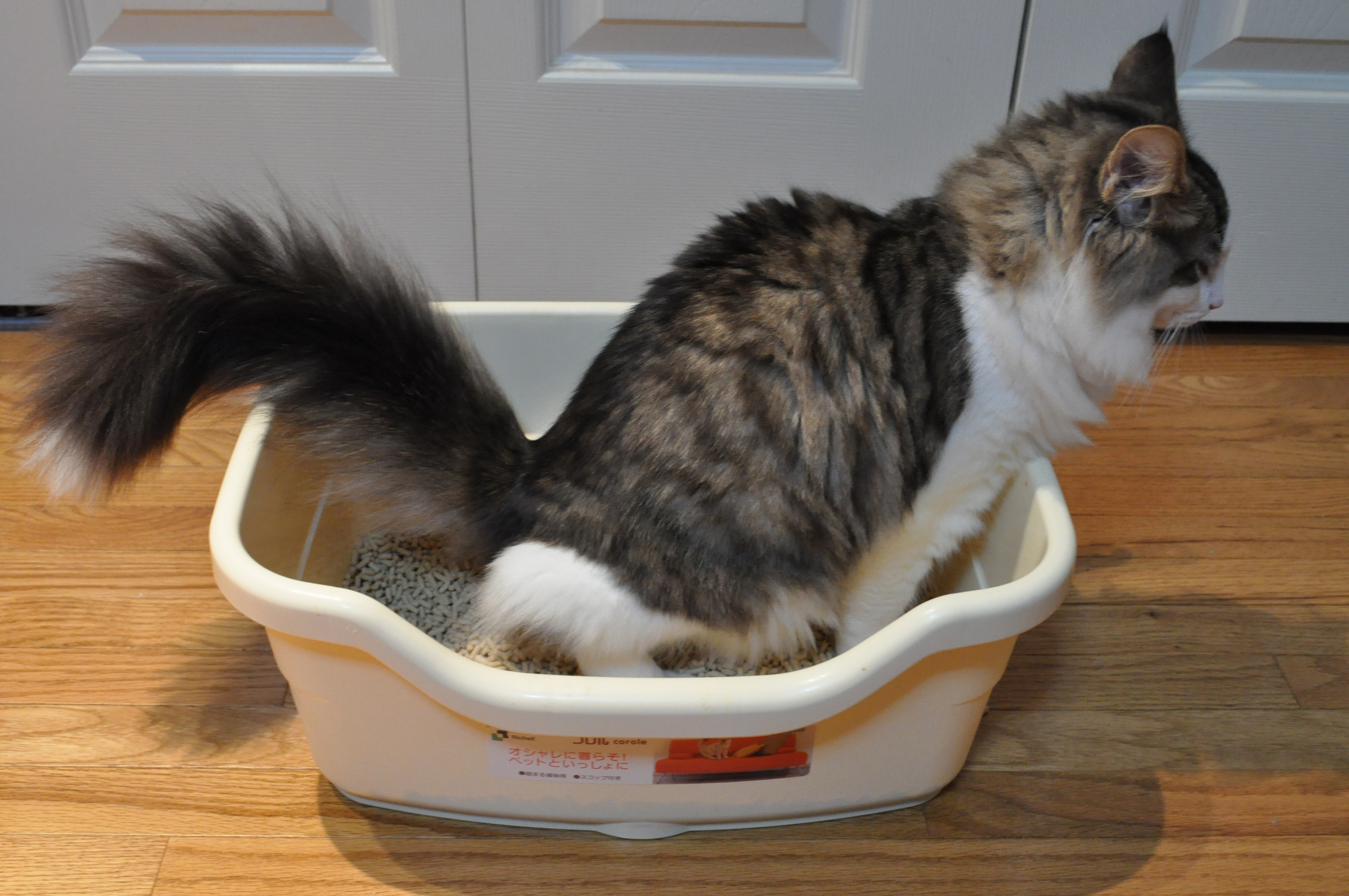 Japanese litter box in use